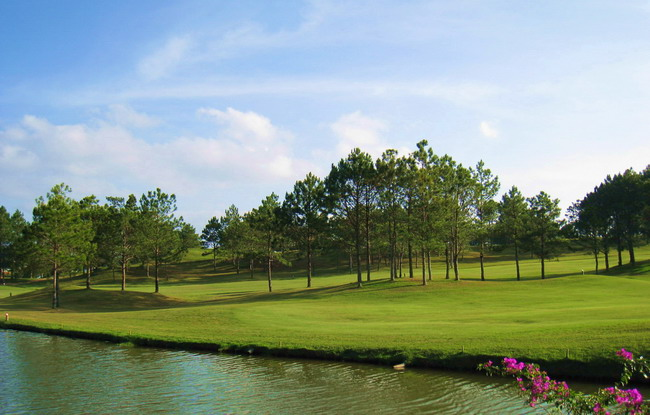 Dalat golf, the very beautiful place